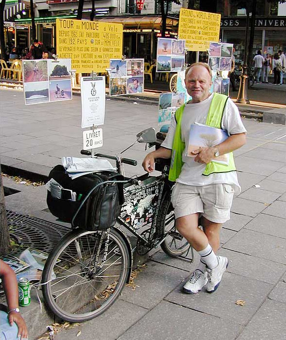 World cyclist Heinz Stuecke on the place de la Sorbonne in Paris, France